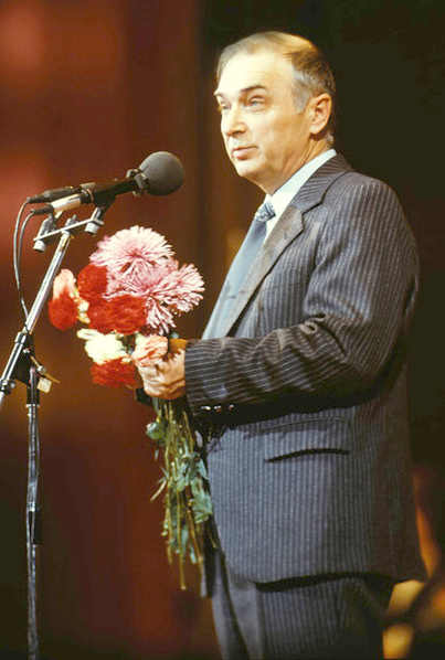 Ion Druta, the Moldavian writer (the end of 80th years).